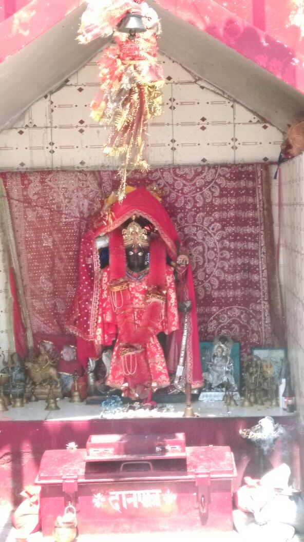 Photograph of Pohlani Mata at Pohlani Mata Temple in Dalhhousie, Himachal Pradesh, India